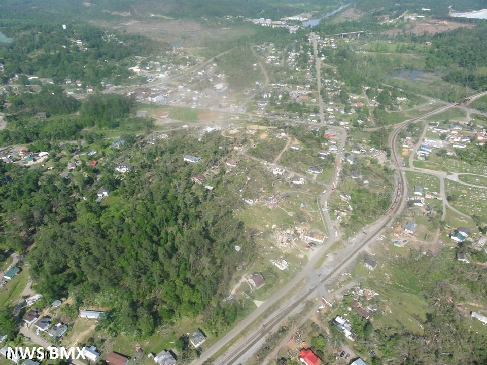 Overhead view of EF4 damage in Cordova, Alabama on April 27, 2011